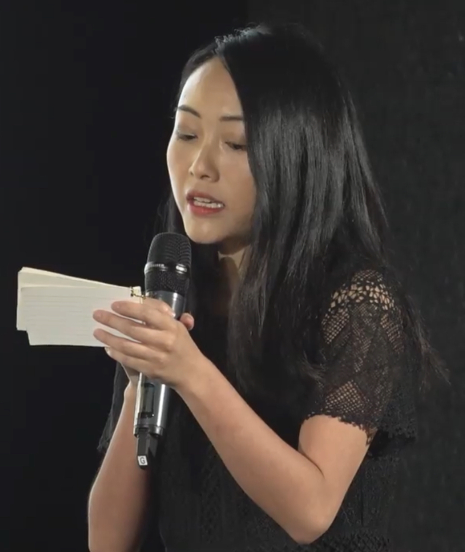 Vera Yuen Wing Han attend as a guest for 2020 Hong Kong pro-democracy primaries